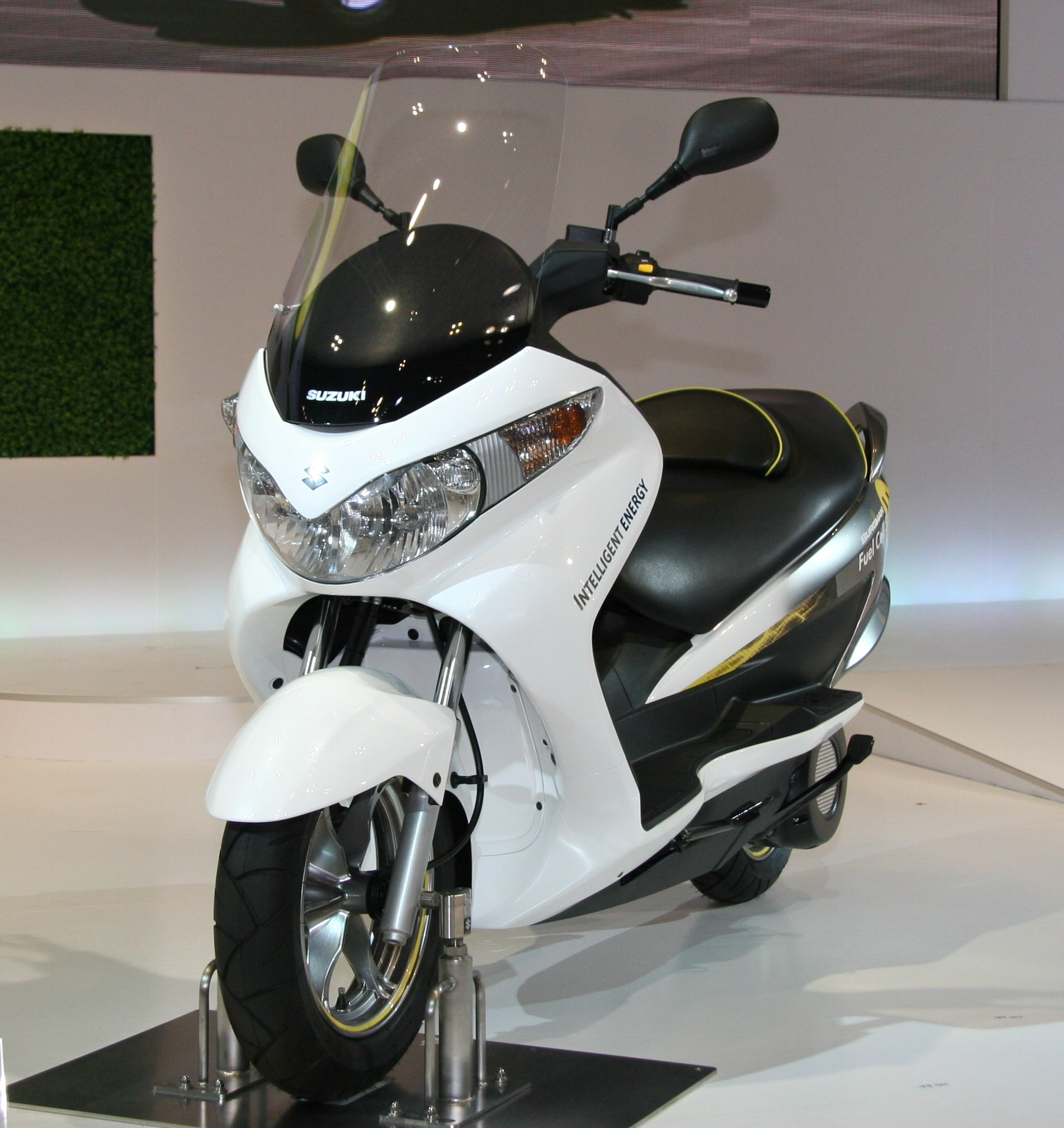 Suzuki Burgman